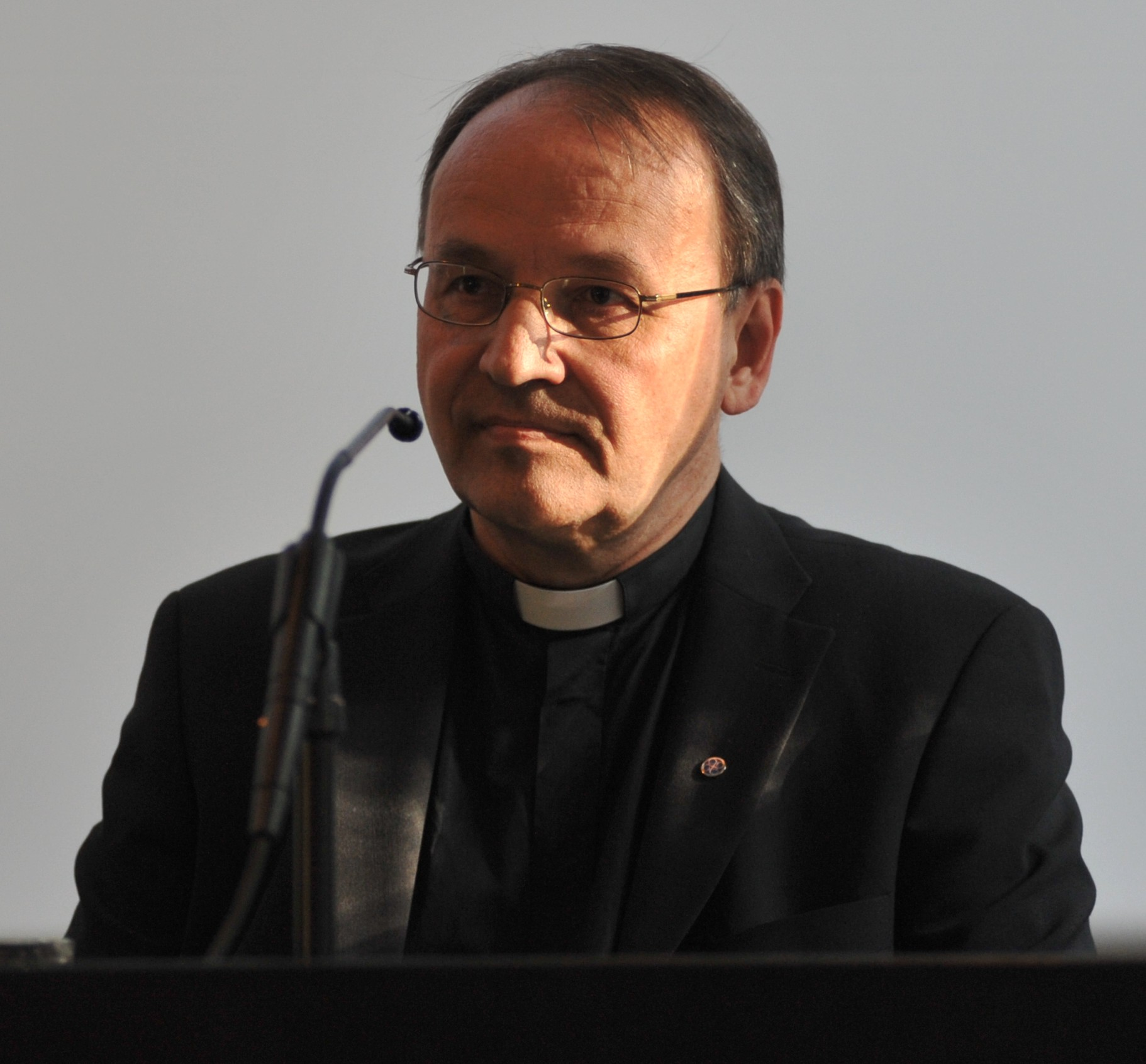 Matti Poutiainen, Finnish priest, House of Sciences and Letters, Helsinki, May 2010.